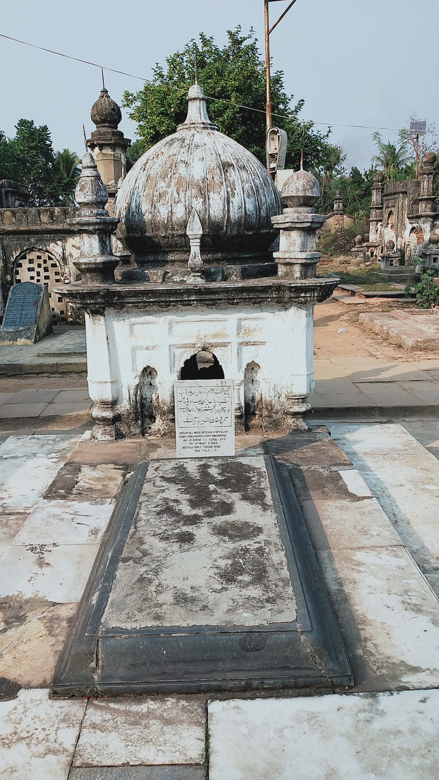 Tomb of Humayun Jah (Mubarak Ali Khan II) at Jafrganj Cemetery, Murshidabad